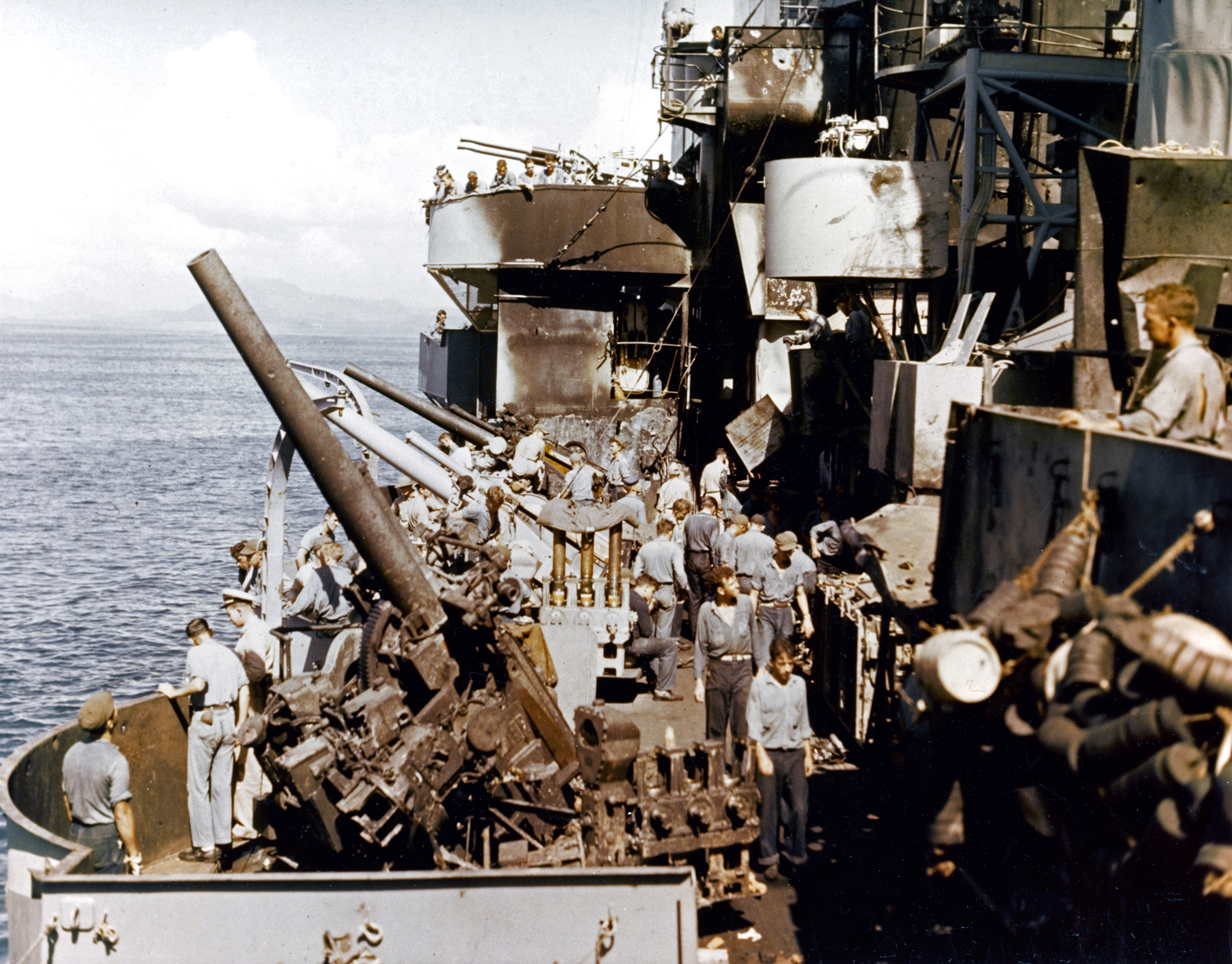 U.S. Navy crewmen aboard the light cruiser USS Nashville (CL-43) cleaning up the port side 5"/25 gun battery, after the ship was hit in that area by a Kamikaze on 13 December 1944, while en route to the Mindoro invasion. Note the fire damage to the guns and nearby structure.